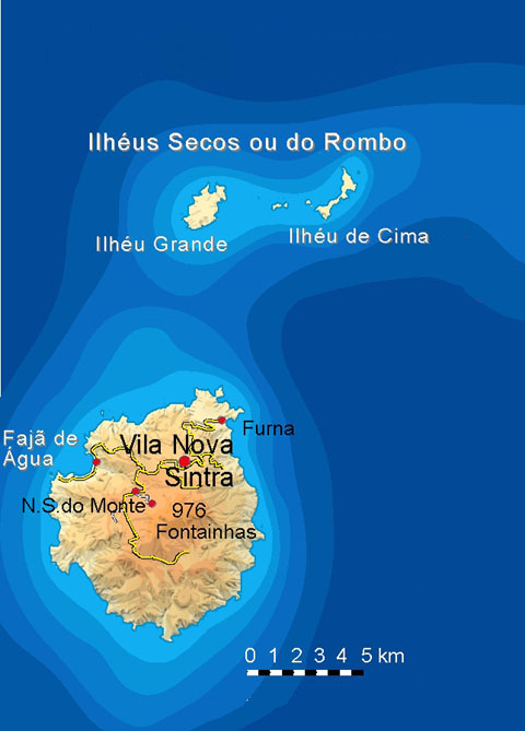 Taken from German Wikimedia, but with a grammatical error corrected.